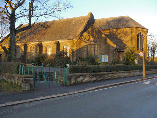 St Luke's parish church, Fauvel Road, Glossop, Derbyshire, seen from the south